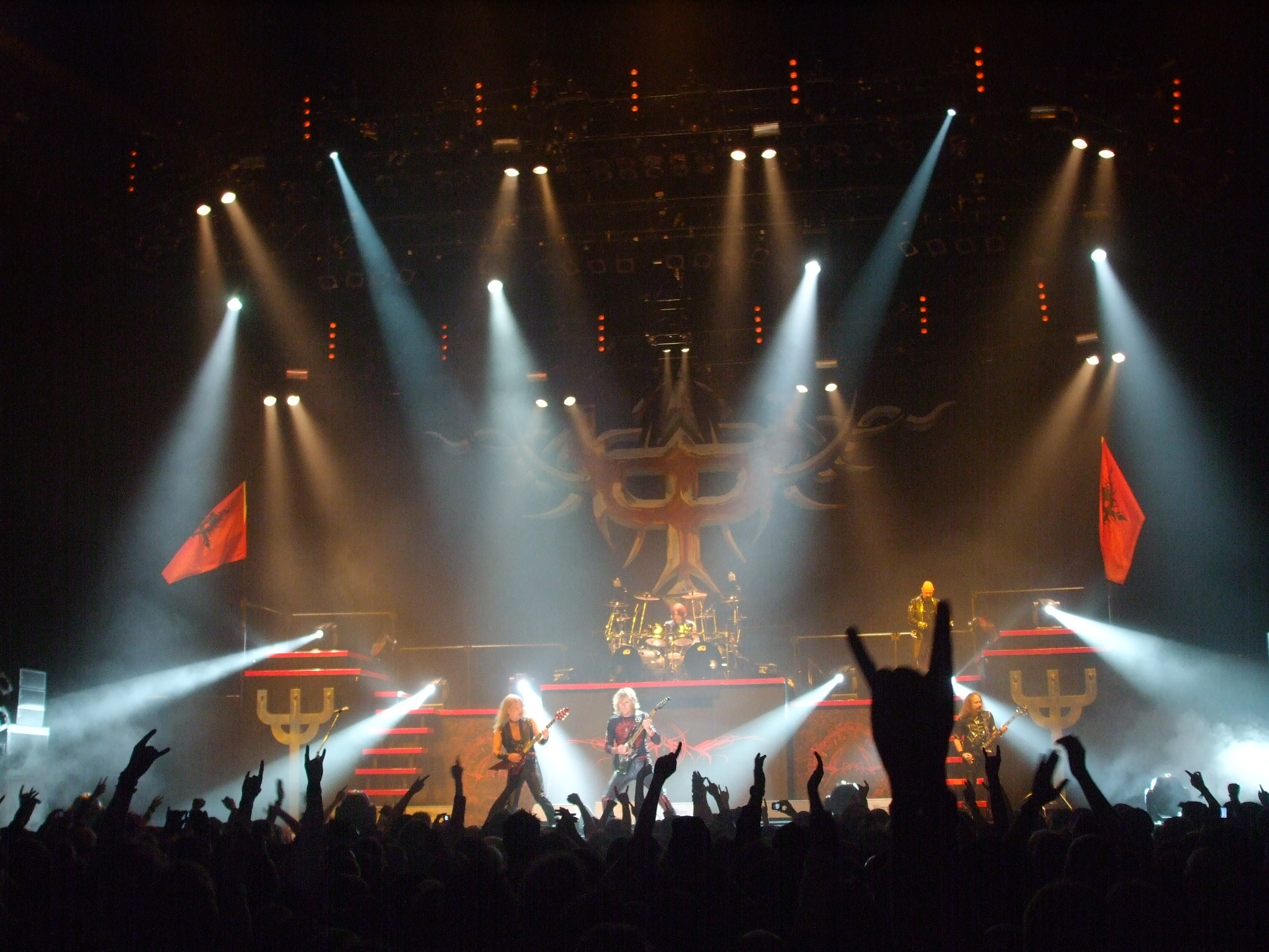 Judas Priest performing at the Sheffield Arena in February 2009